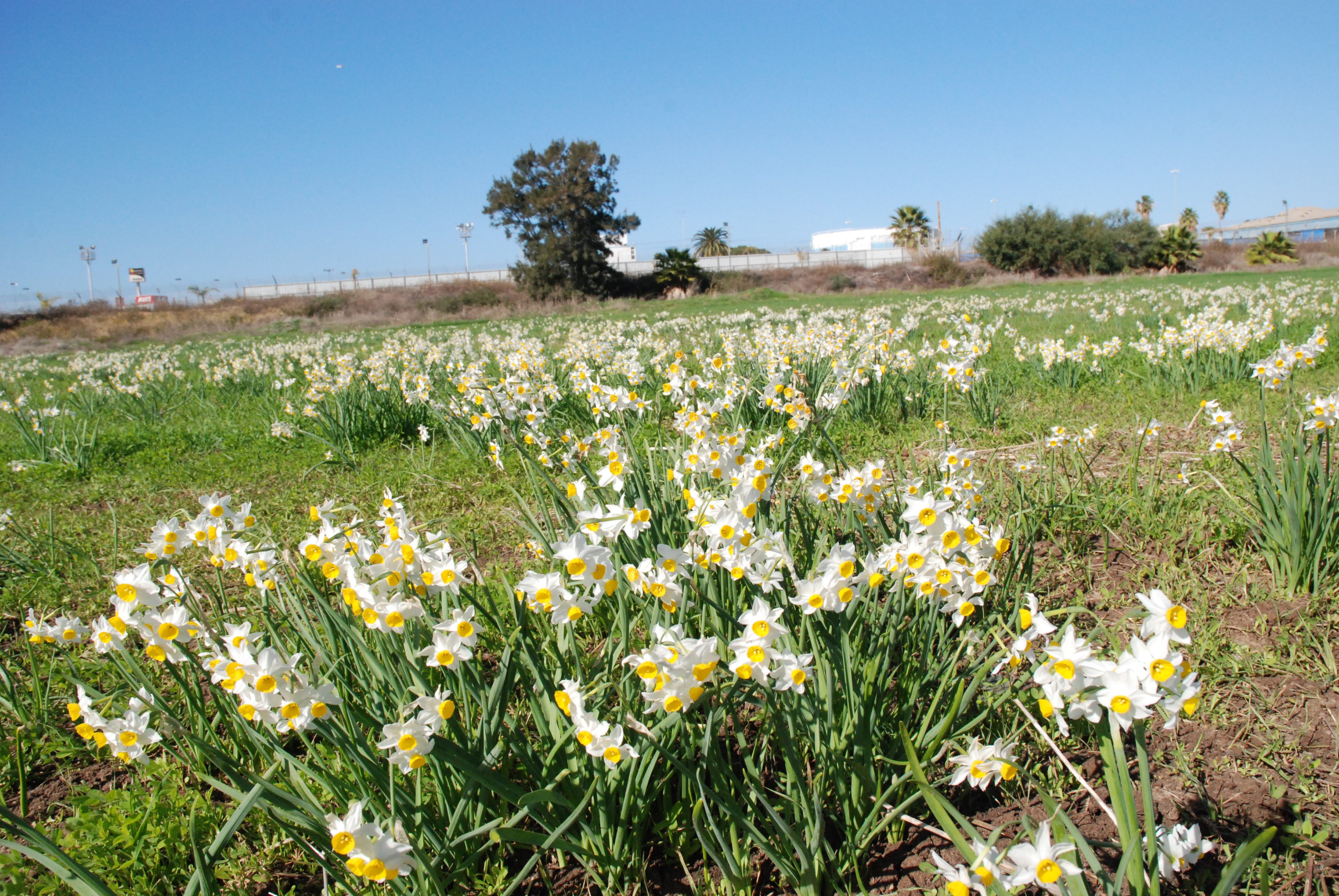 Nature and Colors